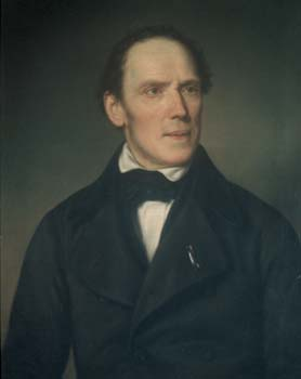 Johann Andreas Schmeller (1758-1852), 19th century Bavarian linguist and writer, author of a Bavarian dictionary